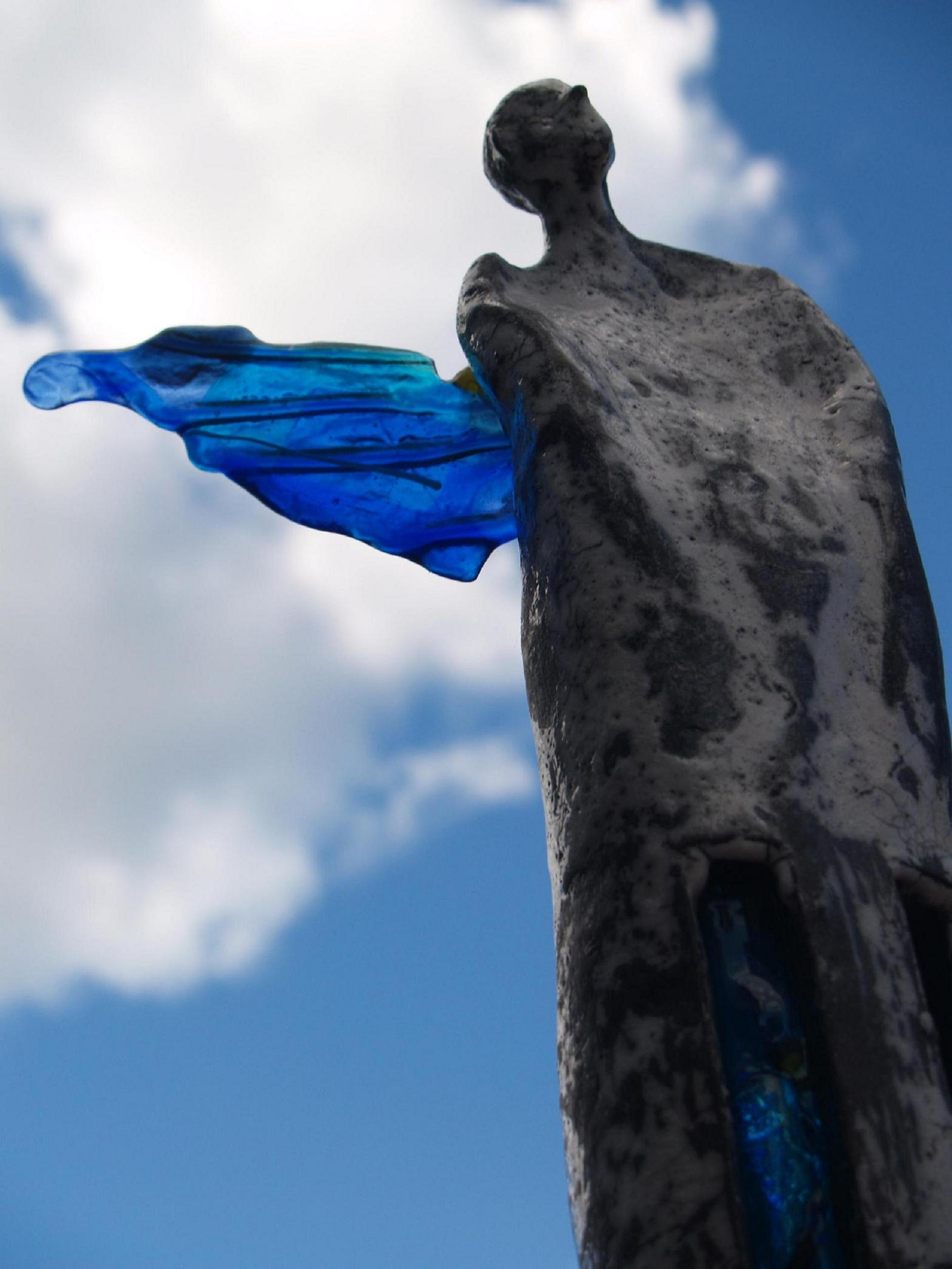 Sculpture by Marie Hektor